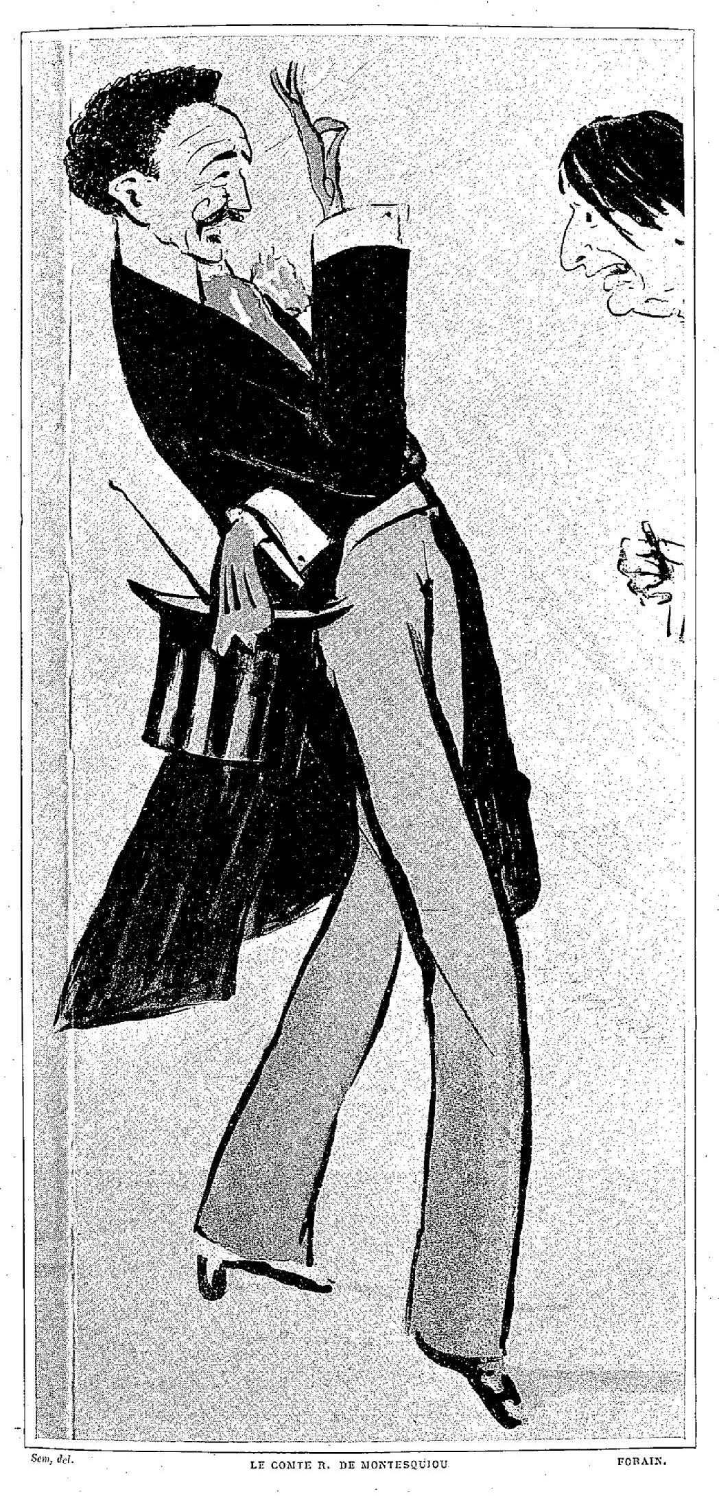 Caricature published in "Les Modes" of Count Robert de Montesquiou